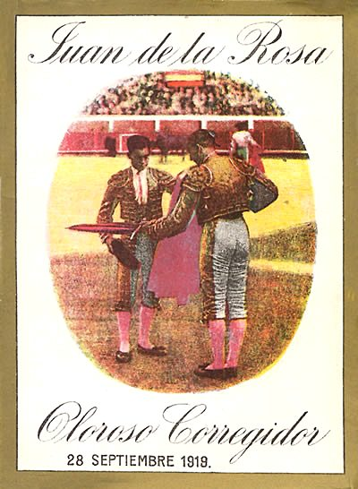 Archivo: José L. Jiménez